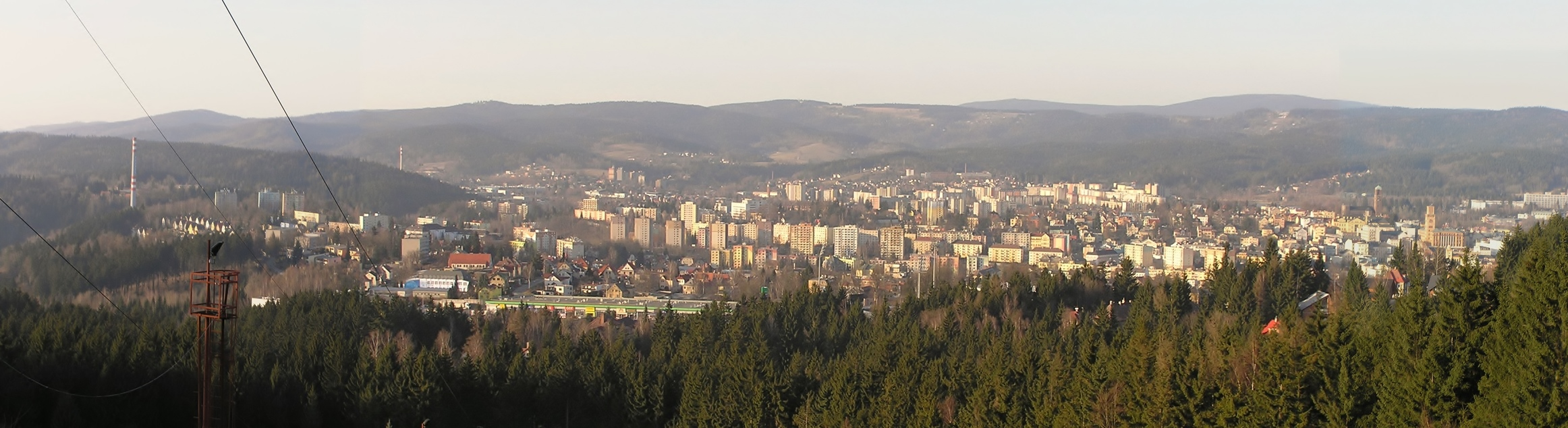 View over Jablonec nad Nisou to the Jizera Mountains from the top of the ski slope at Dobra Voda.